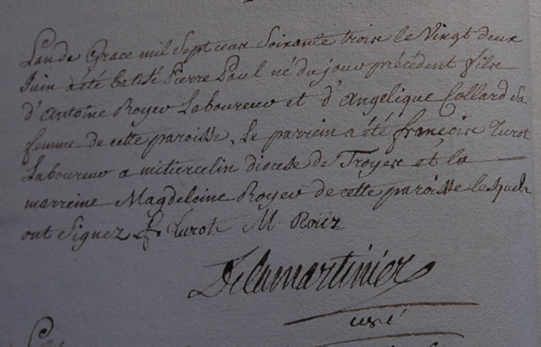 Baptism of Pierre-Paul Royer-Collard, at Sompuis (Marne), 1763-06-21.